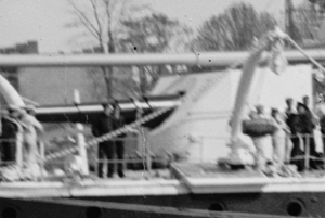 Photograph showing forward 9.2 inch gun on British cruiser HMS Australia.